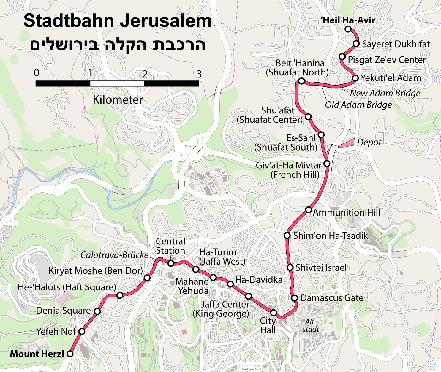 Map of the Jerusalem tramway